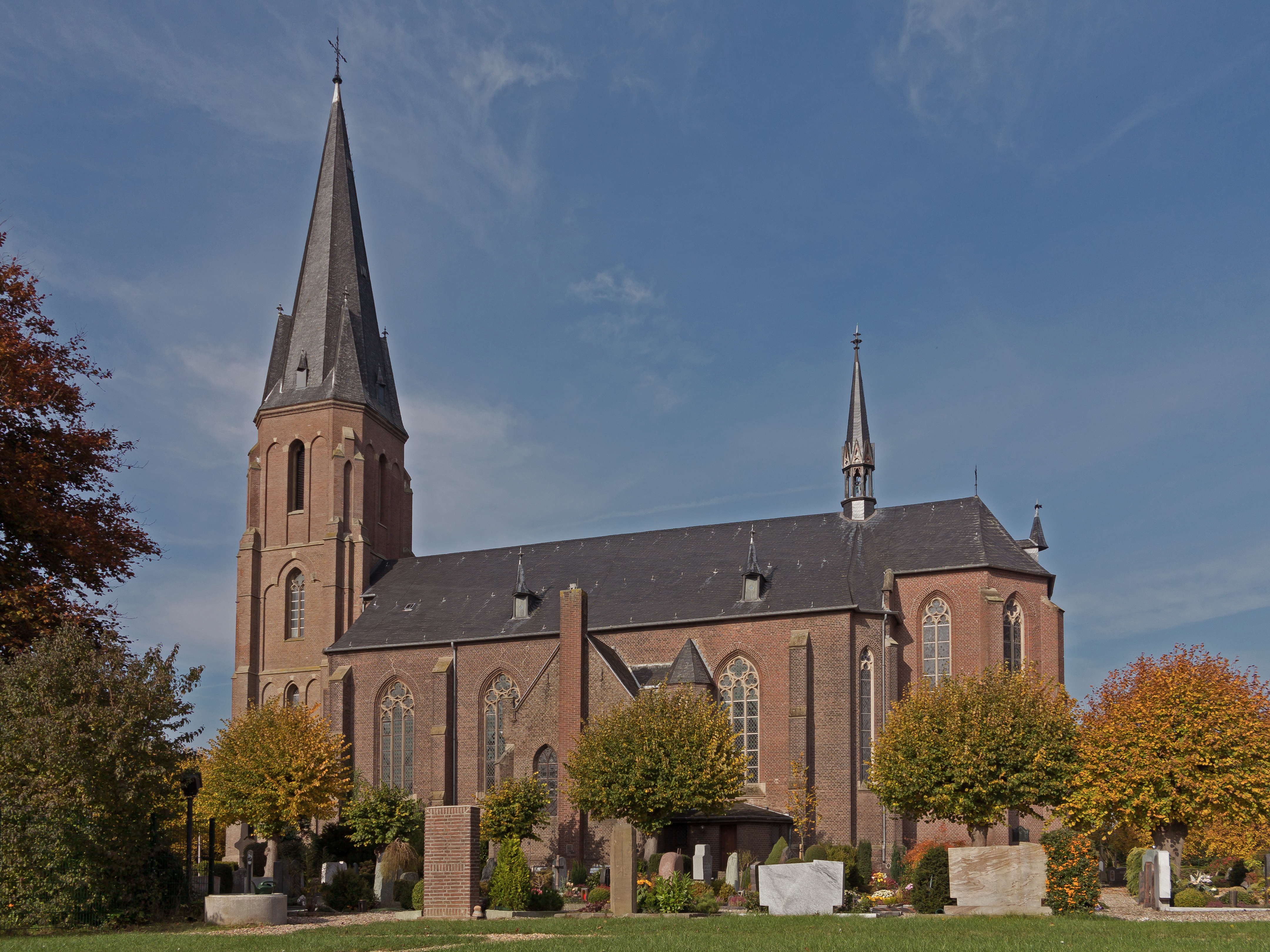 Rindern, catholic church (Pfarrkirche Sankt Willibrord) This is a photograph of an architectural monument., no. 36